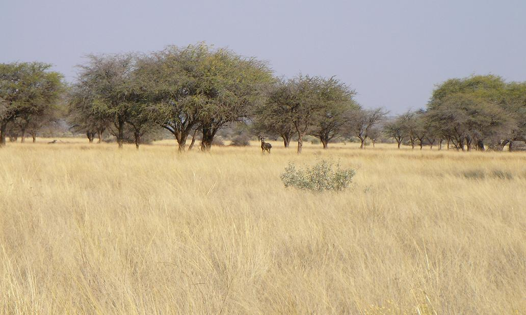 Savanna (and animals) near Kuruman, South Africa. Photo taken at 4:39 PM local time.